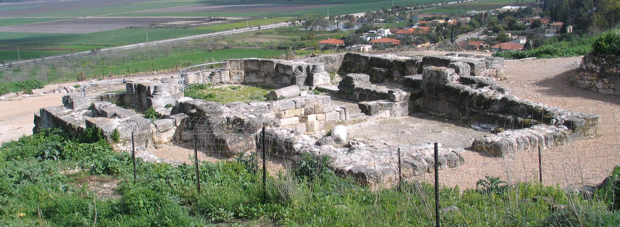 Crusader church at Tel Yokneam, Israel.